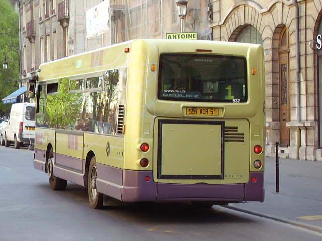 An Heuliez GX117 of the TUR network in Rheims, France, rear view.